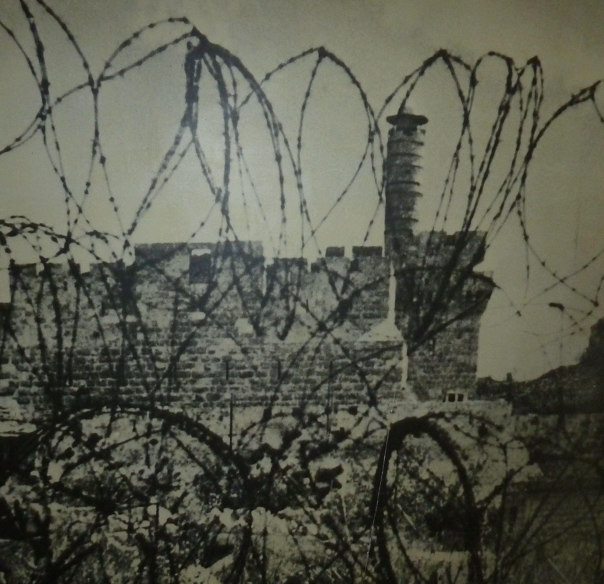 Ammunition Hill Museum Exhibits, Historic Images of Jerusalem